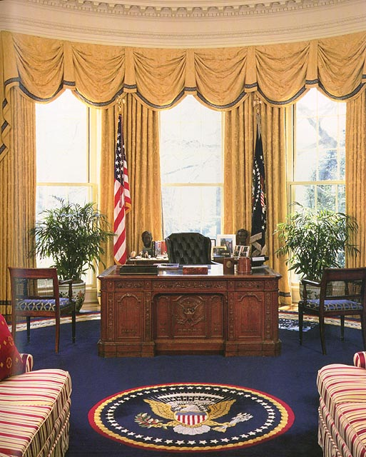 White House Oval Office during the administration of Bill Clinton